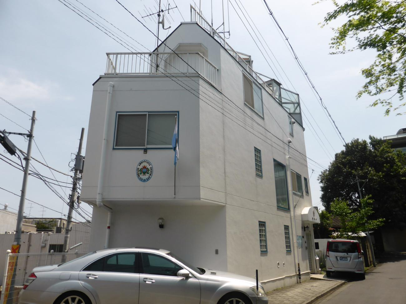 Embassy of San Marino in Tokyo, Japan